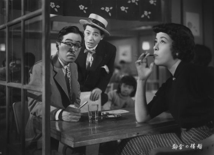 Hisaya Morishige, Ryō Ikebe and Kiyoko Tange in Tokai no yokogao (都会の横顔) directed by Hiroshi Shimizu - 1953